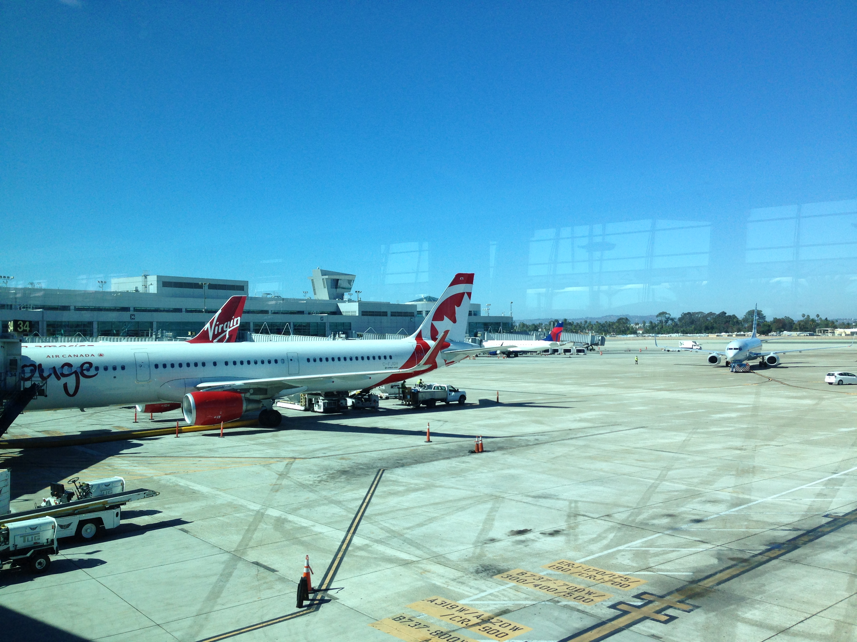 View of San Diego International airport from gate 33